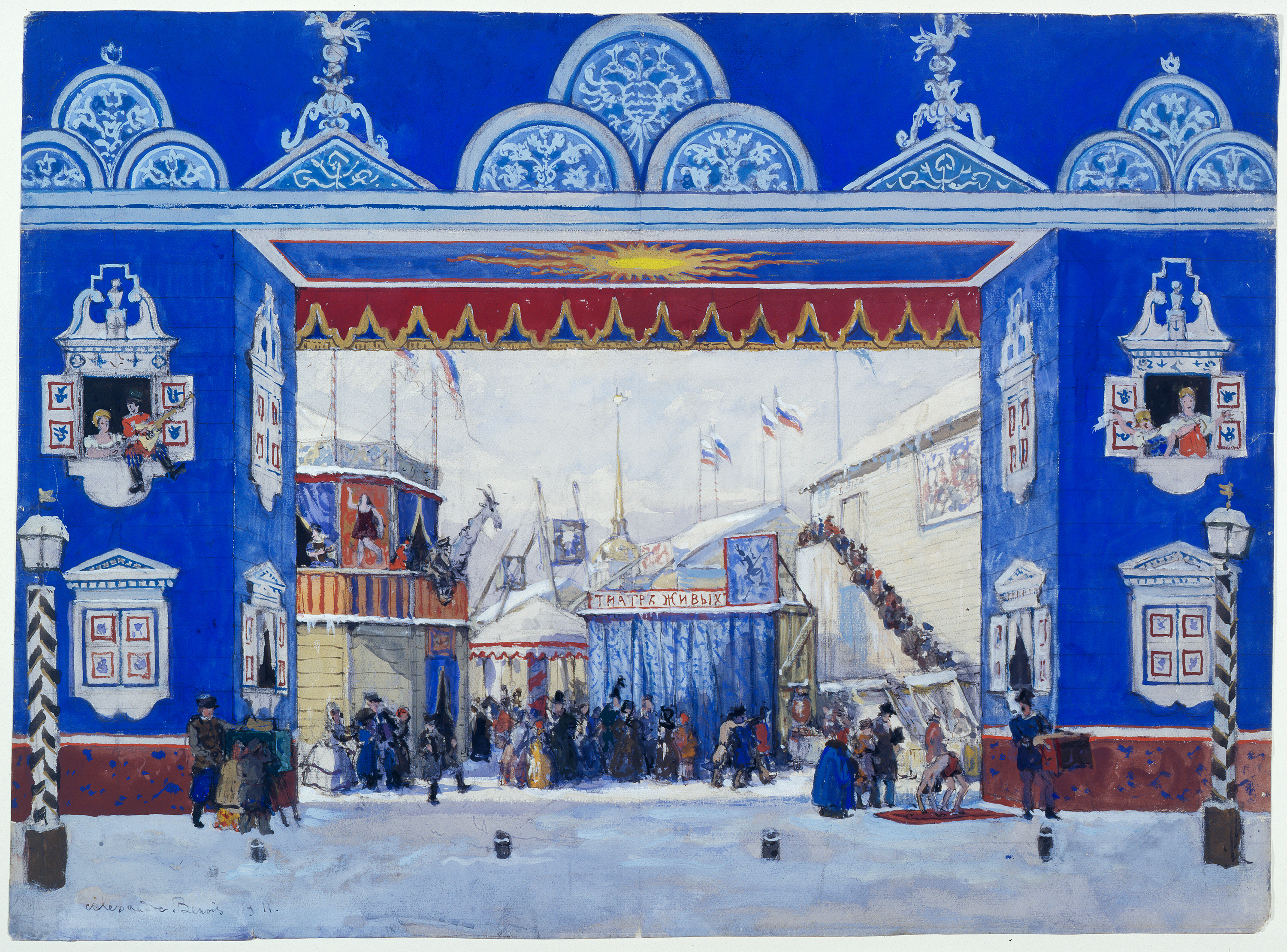 Set design by Alexandre Benois for the 1911 Ballets Russes production Petrouchka